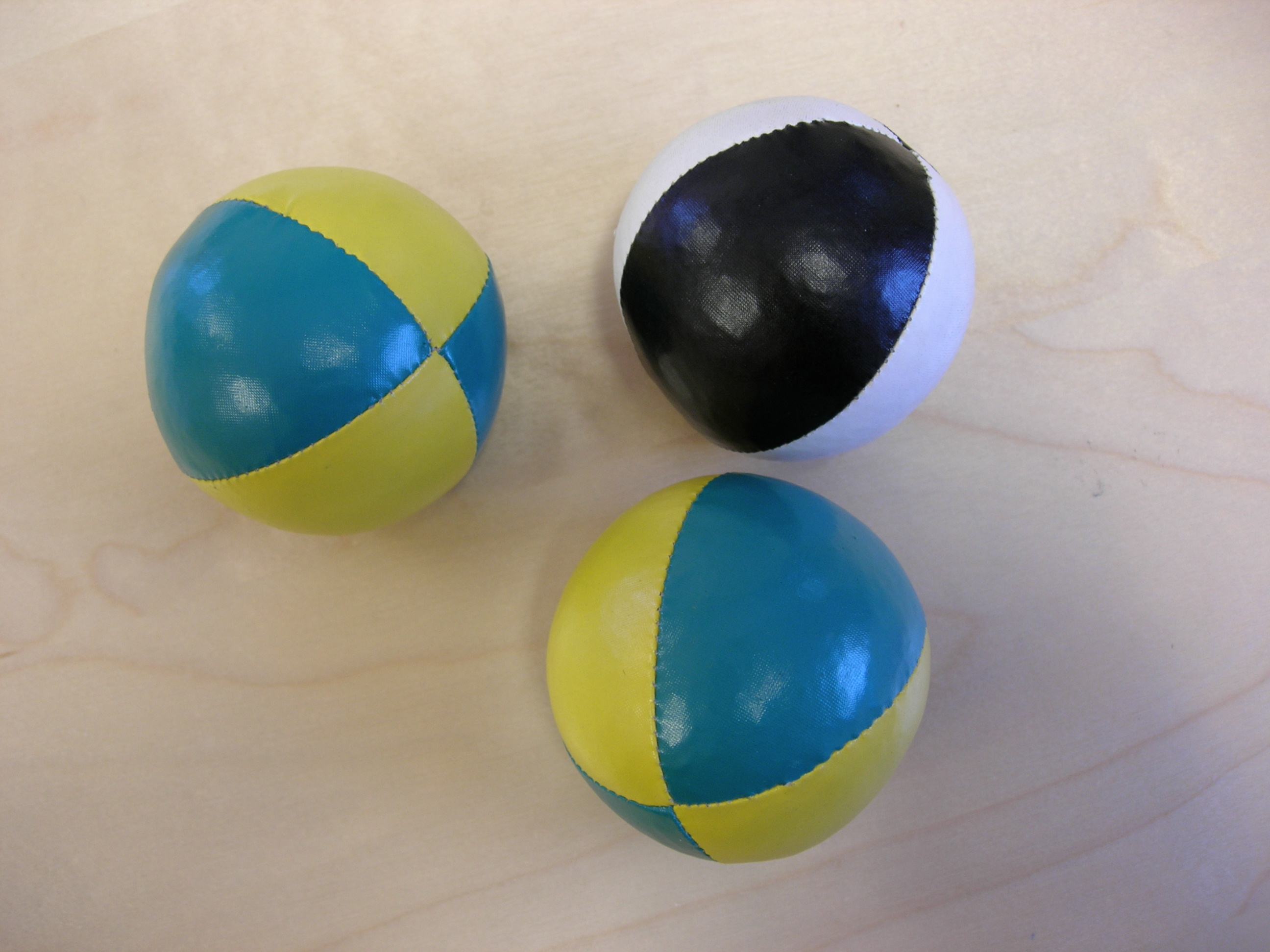 Juggling balls. Photo: User:Soulkeeper